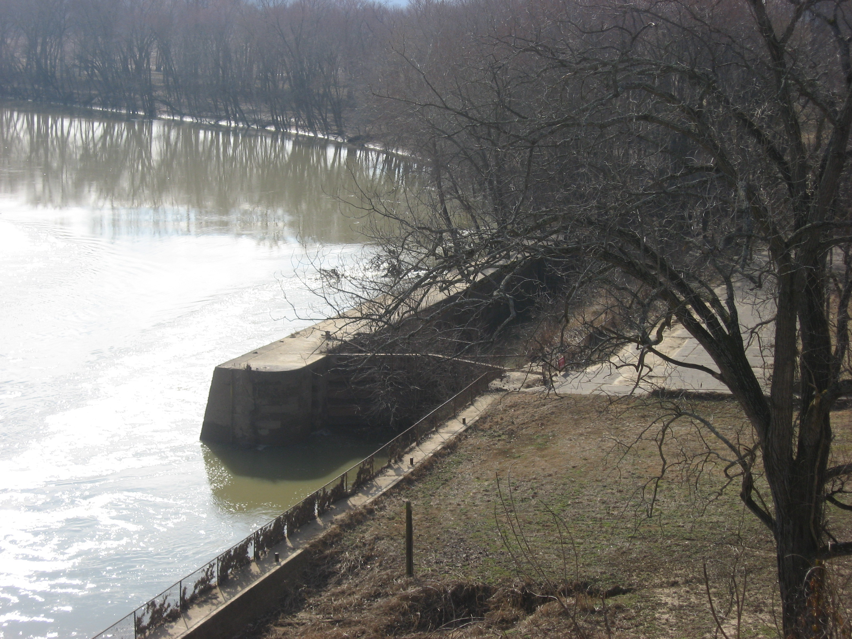 Overview of Woodbury Lock No. 4 on the Green River, located in Woodbury, Kentucky, United States. Photo taken from the northwest, looking down from Park Street in front of the former lock superintendent's residence. Built in 1839, the lock was abandoned after the 1965 collapse of its associated dam.